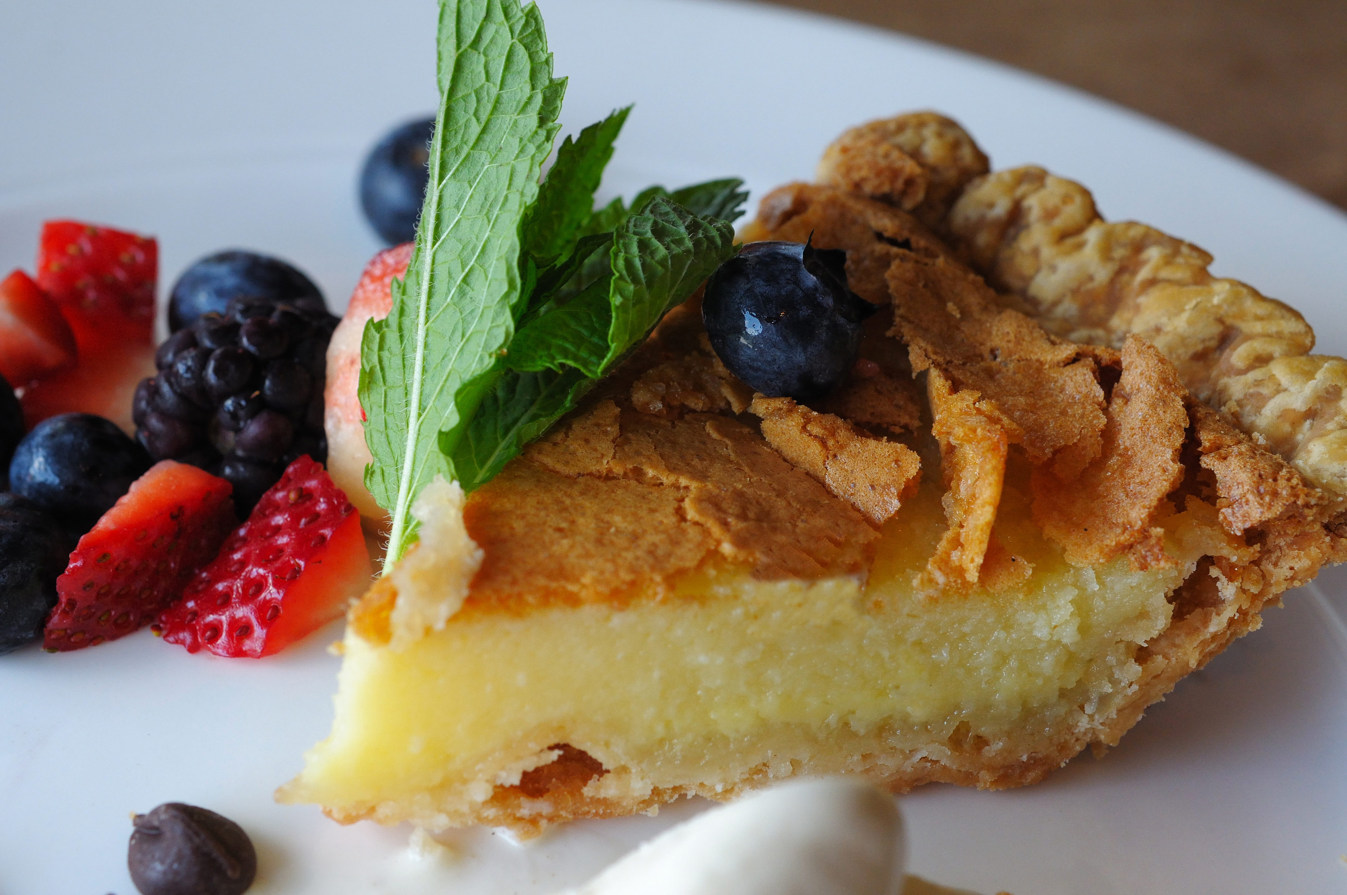 Buttermilk Pie with Pecan Brittle at Dyron's Lowcountry.